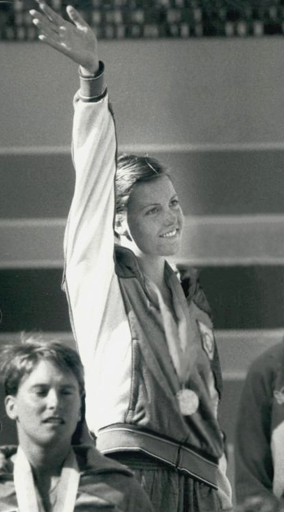 1984 PRESS PHOTO Mary Wayte